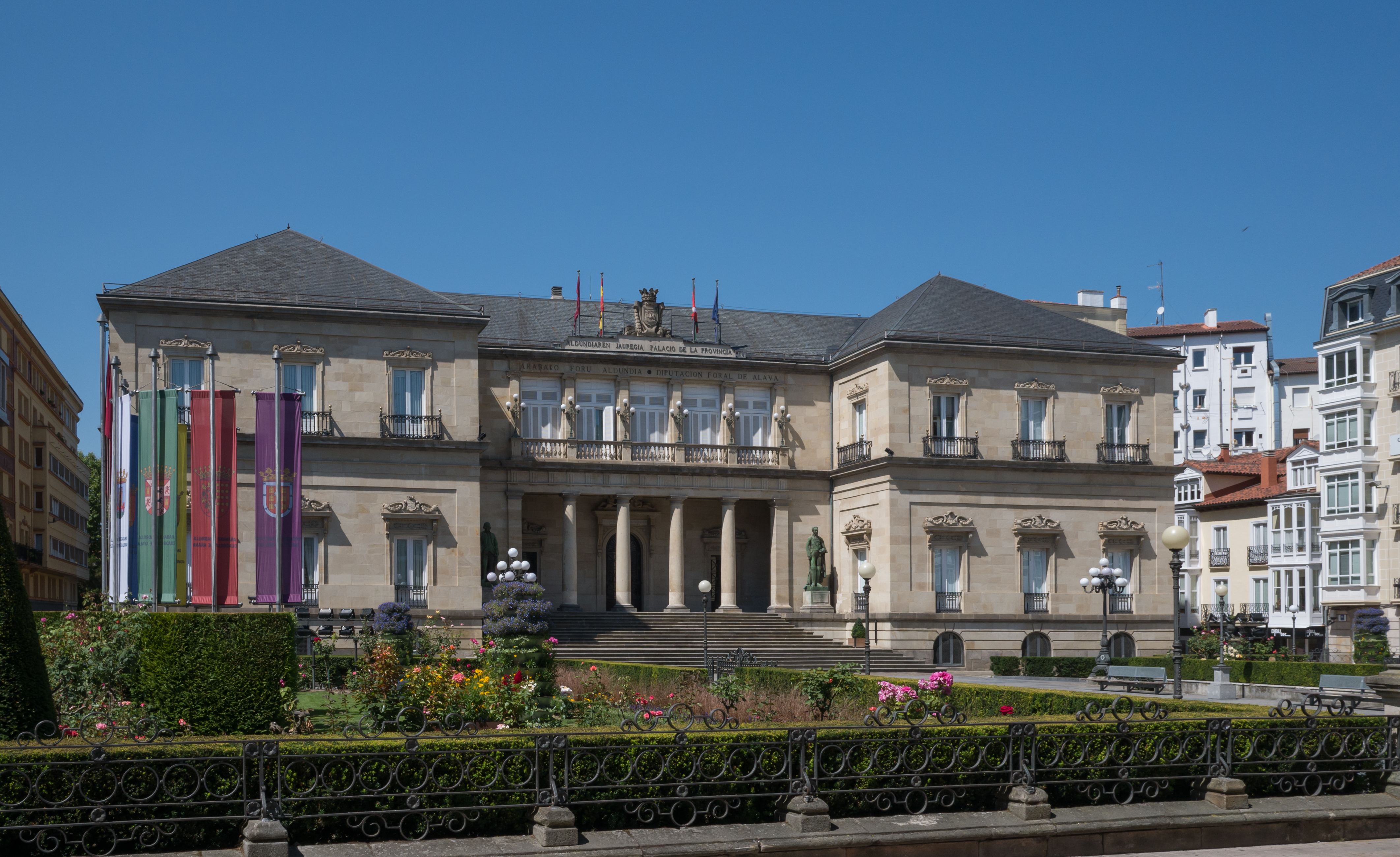 Building of the district government "Diputación Foral de Álava" in Vitoria-Gasteiz, Basque Country, Spain